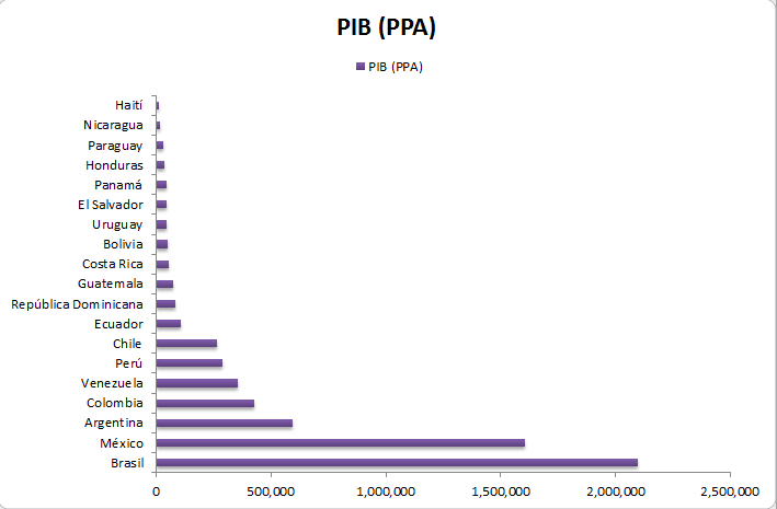 GDP PPA 2011